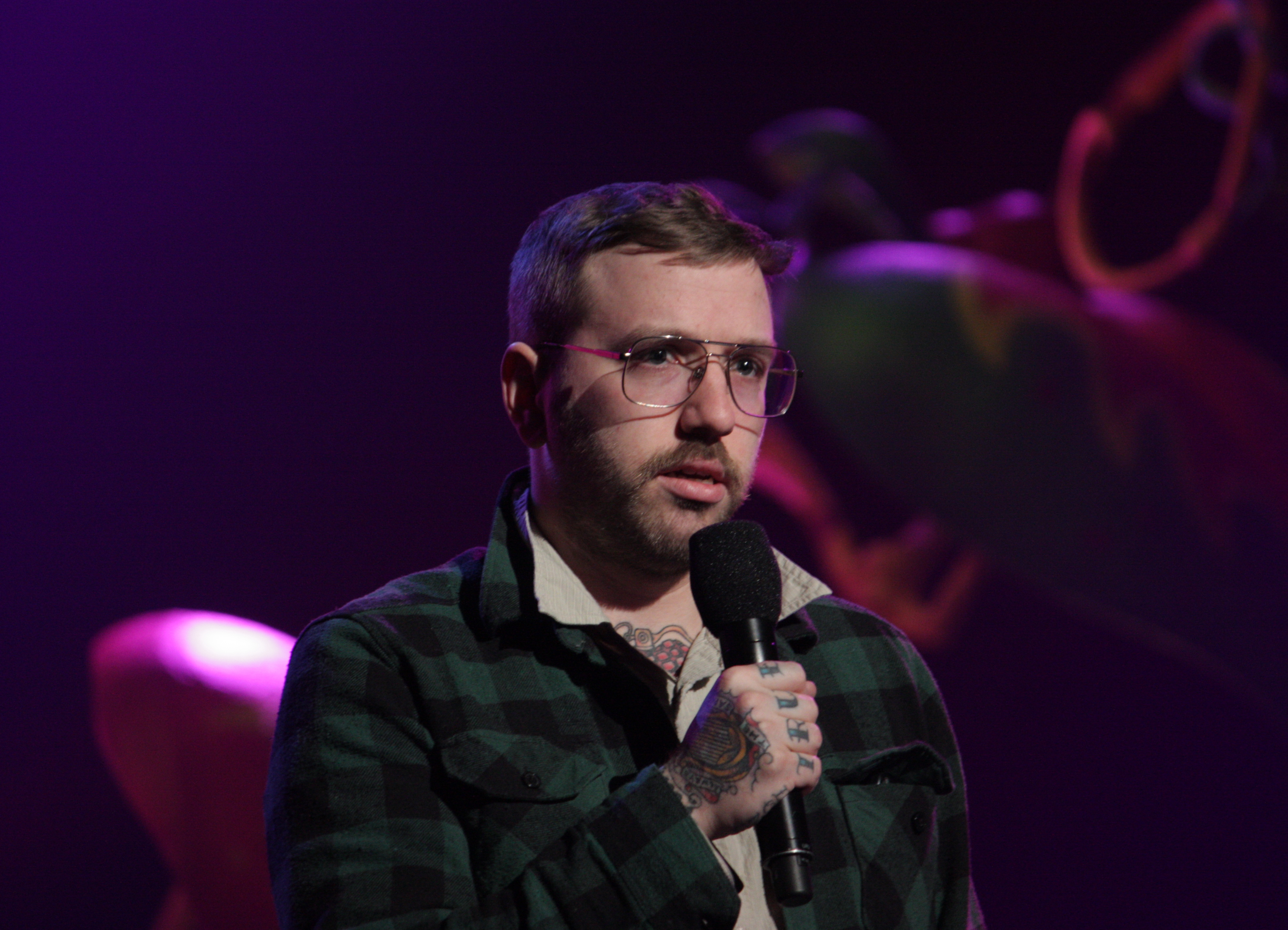 Dallas Green /City and Colour at The Juno Awards 2009